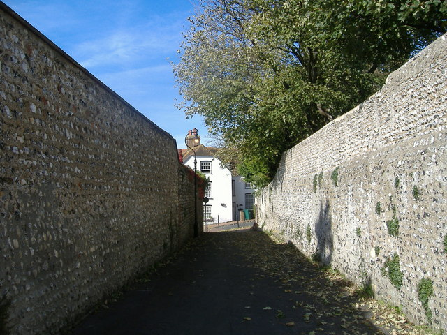 Twitten in Portslade Village Kemps in the High Street can be seen at the end of the twitten (walled passage) leading to St Nicholas church.